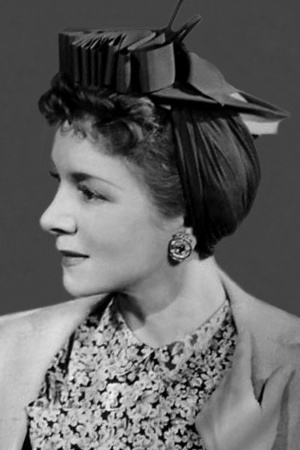 Promotional photograph of actress Helen Hayes (photo gallery).